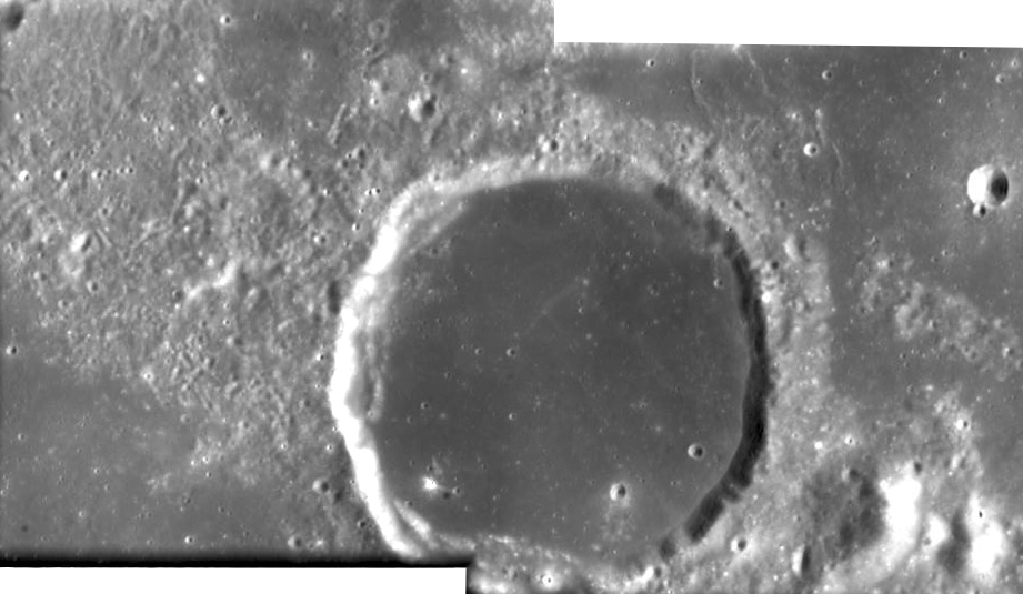 Billy lunar crater - SMART-1 image.